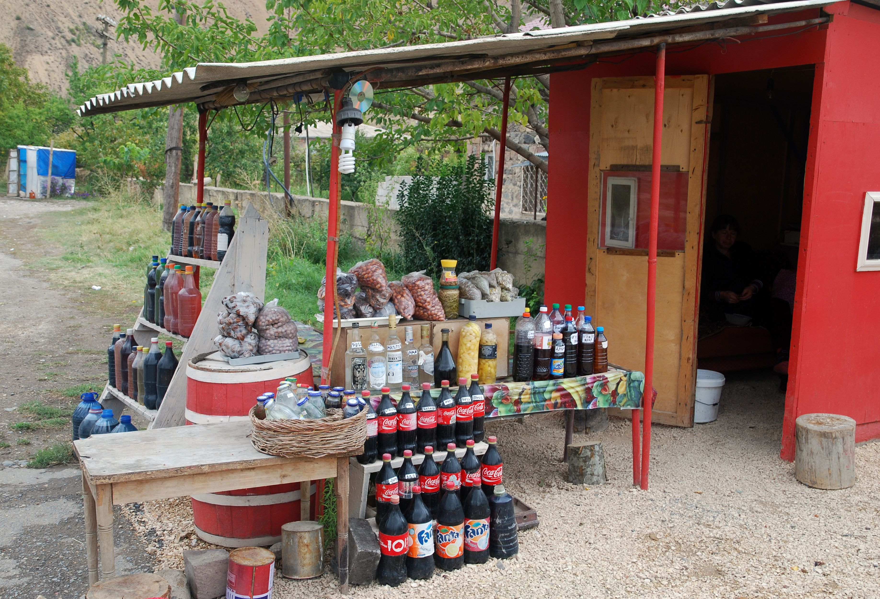 Areni, wine shop